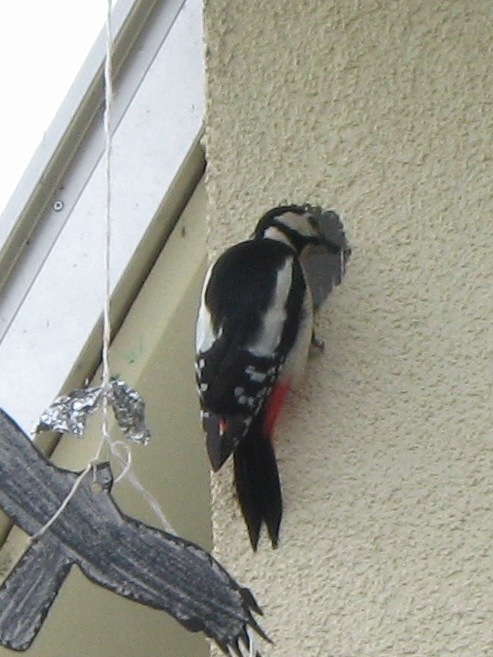 Spotted Woodpecker making hole into insulation plaster - detail